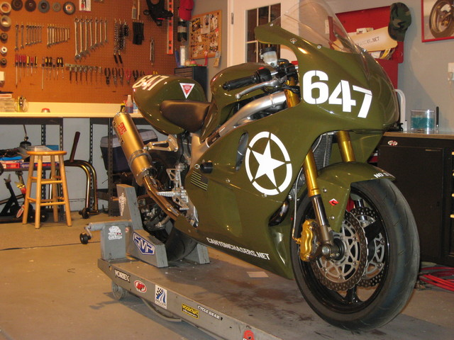 Race-prepped 2001 Suzuki SV650